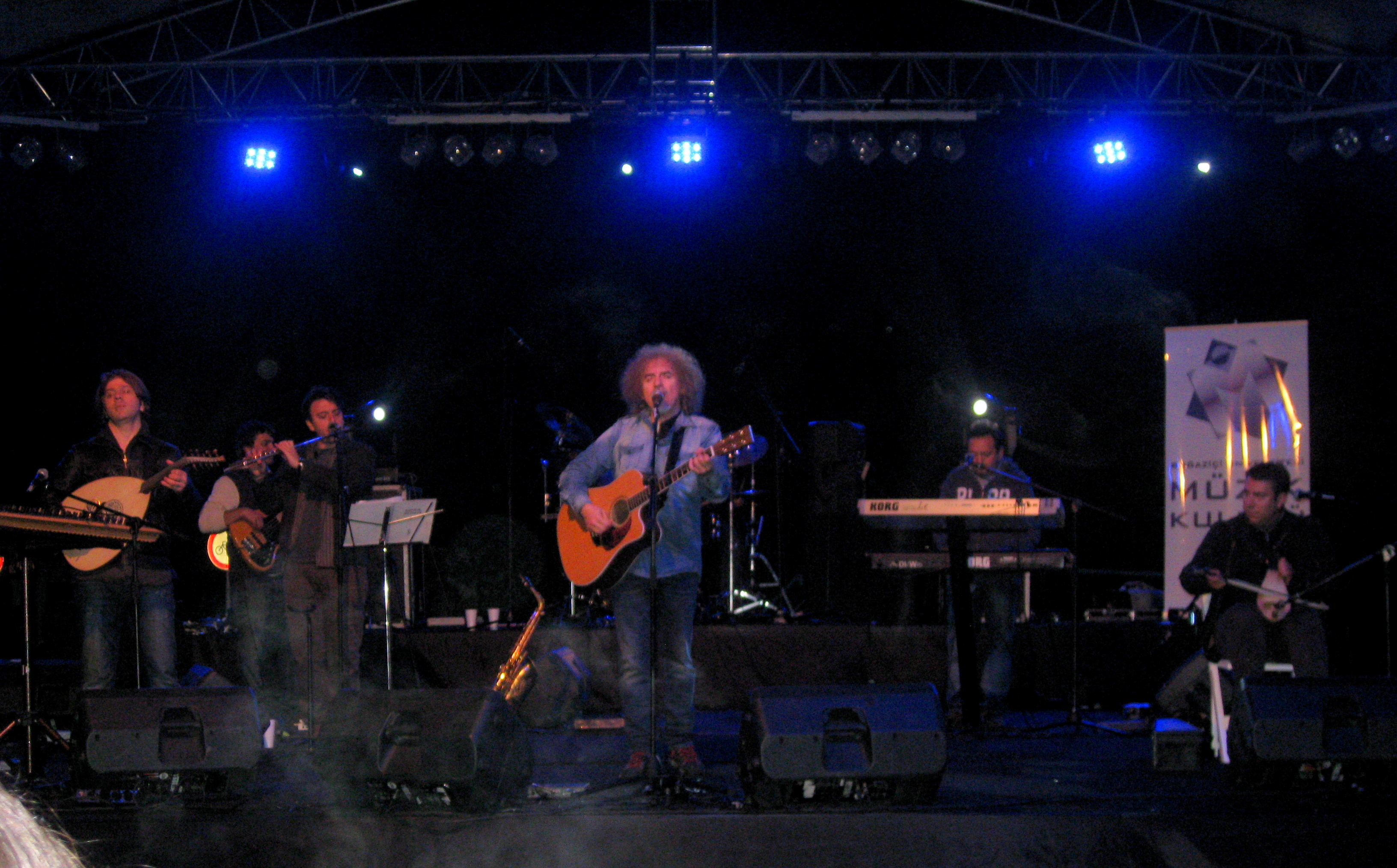 Members of Yeni Türkü at Boğaziçi University, Istanbul, Turkey.